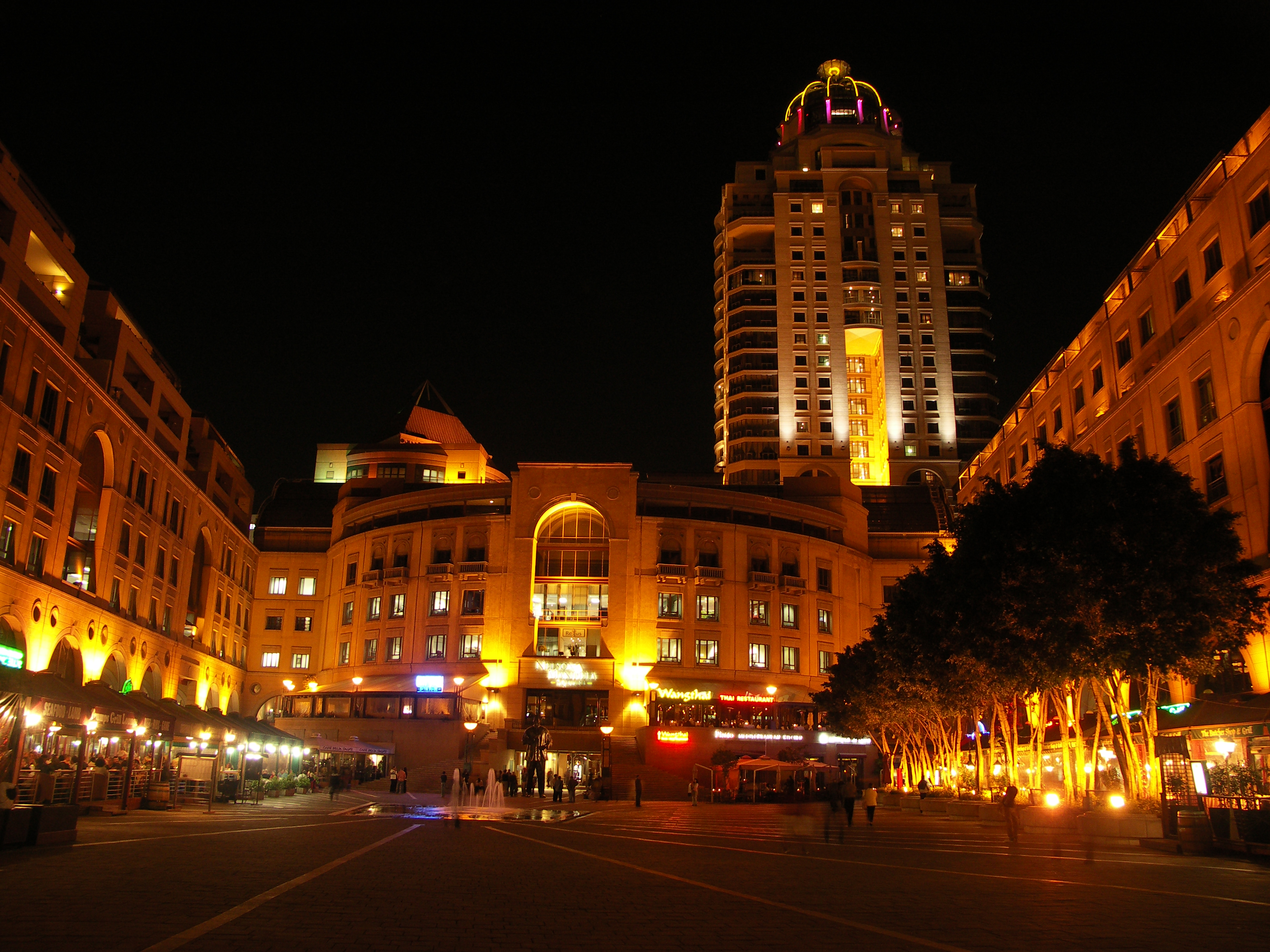 Nelson Mandela Square in Sandton, Johannesburg at night